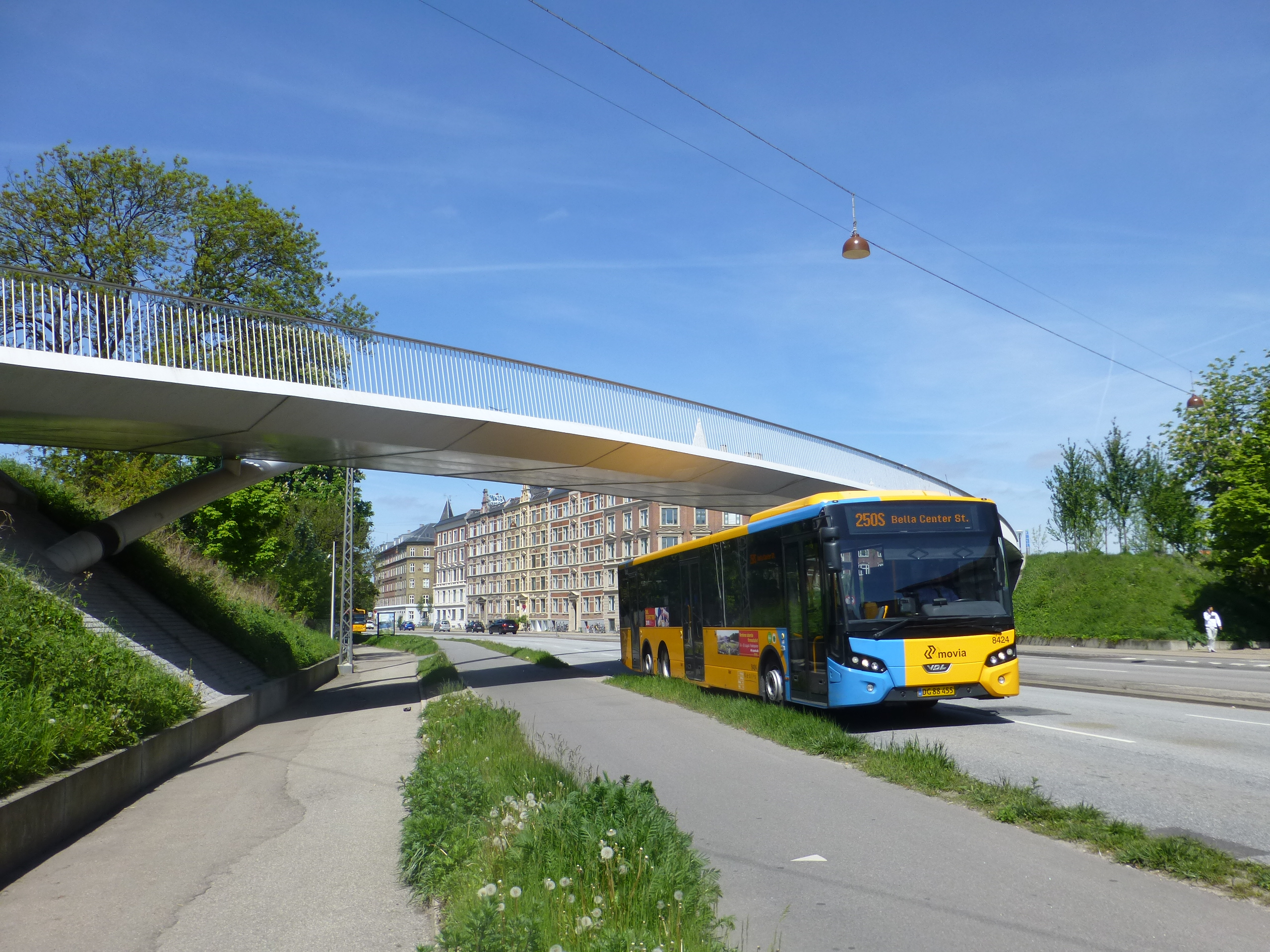 Movia bus line 250S at the pedestrian and bikeway bridge Åbuen over Åboulevard in Copenhagen.